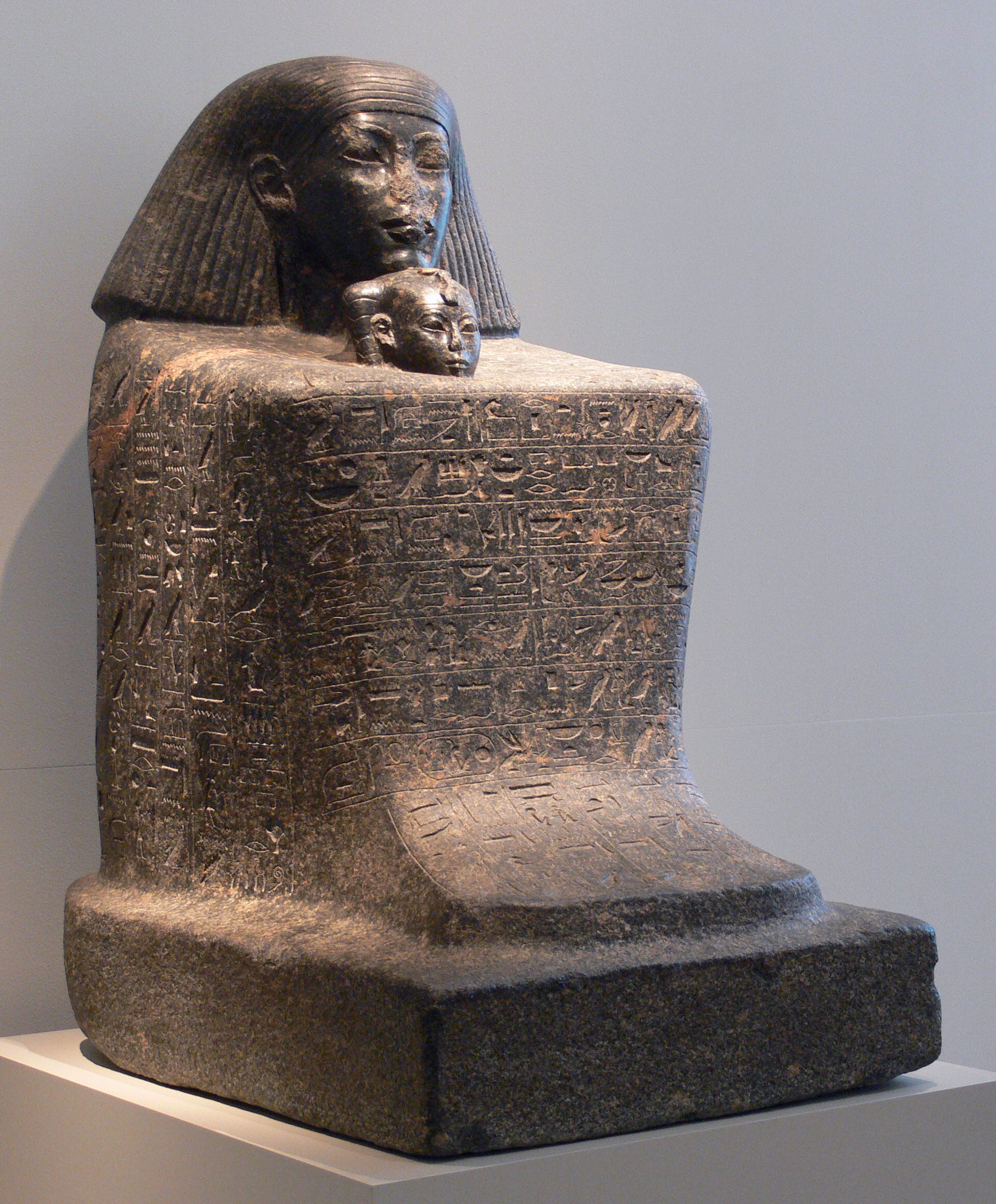 Block statue of Senemut; Theben/Karnak; New Kingdom, 18th dynasty; c. 1475 BC. Egyptian Museum Berlin, Inv. no. 2296.